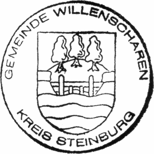 Seal of the municipality Willenscharen in Schleswig-Holstein, Germany